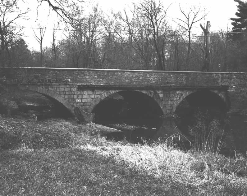 Side of the County Bridge No. 54, which carries Morris Road over a branch of Wissahickon Creek near Prospectville in Whitemarsh Township, Montgomery County, Pennsylvania, United States. Built in 1841, this multi-span stone arch bridge is listed on the National Register of Historic Places.